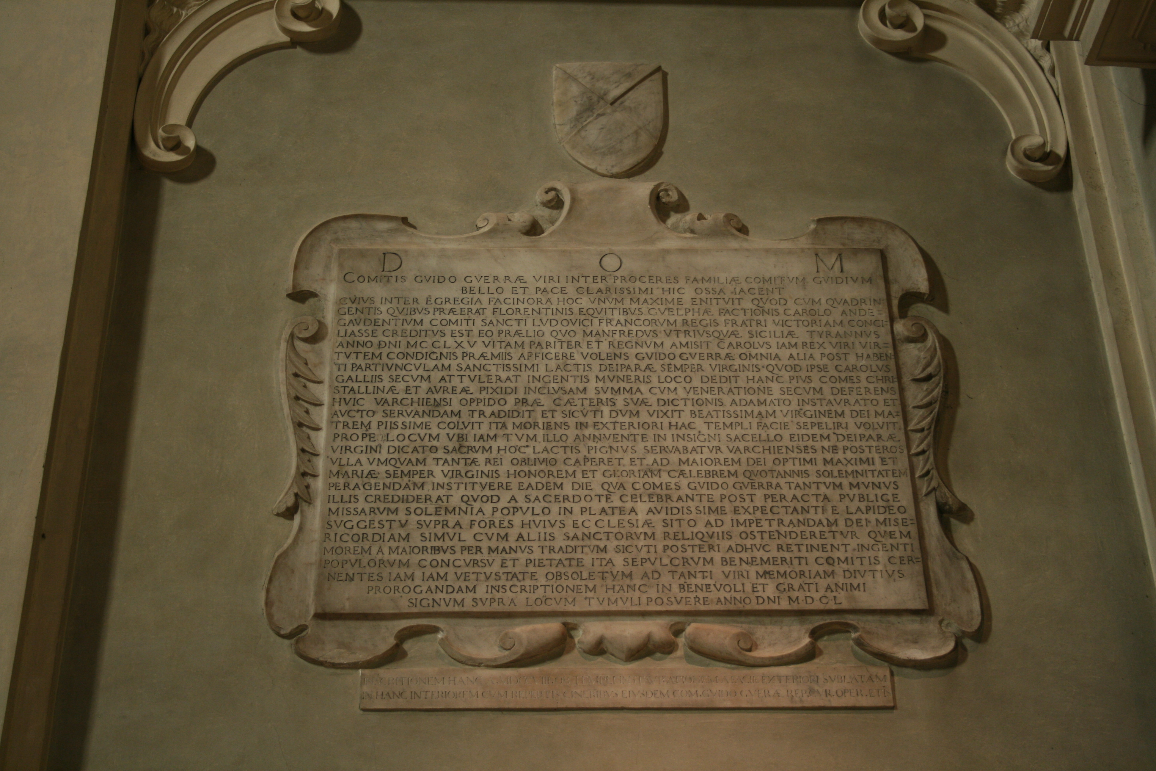 The tombstone of Count Guido Guerra of Guidi Family